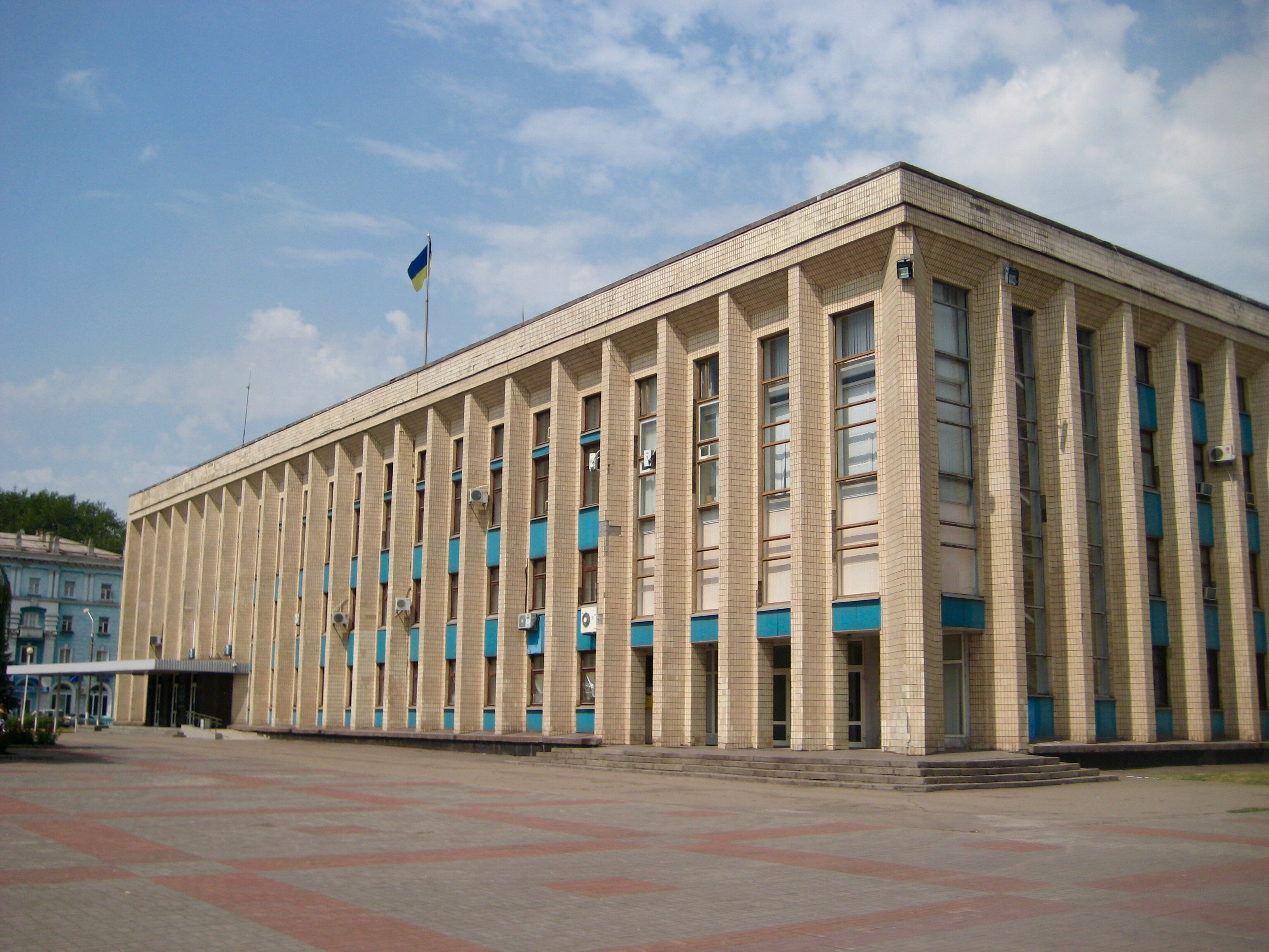 Municipality, Dniprodzerzhynsk